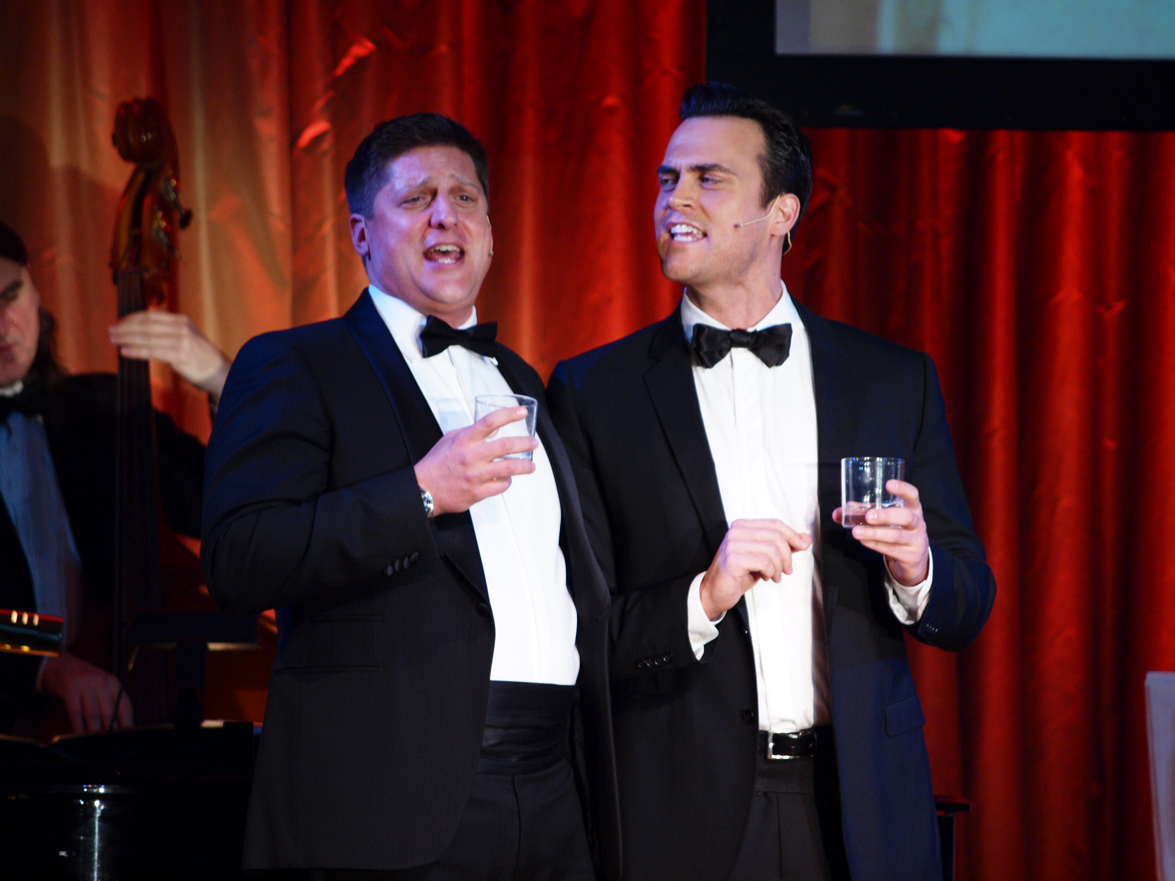 Christopher Sieber, Cheyenne Jackson at the Drama League Benefit Gala Honoring Angela Lansbury, February 8, 2010. The Pierre, New York City, photo by Rob Rich